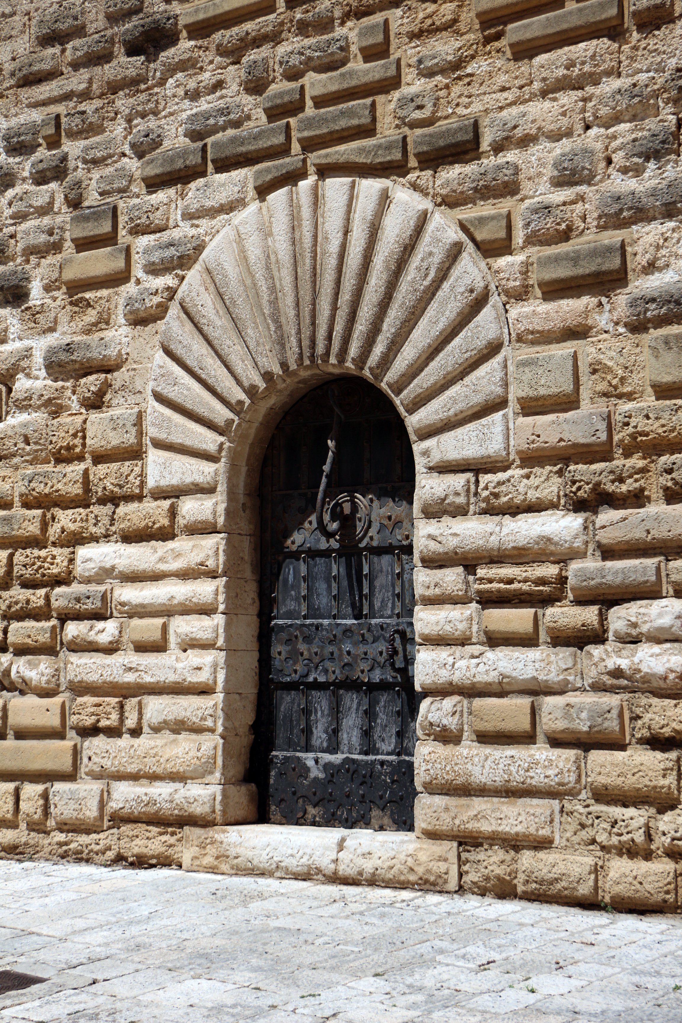 Castello normanno-svevo (Gioia del Colle)